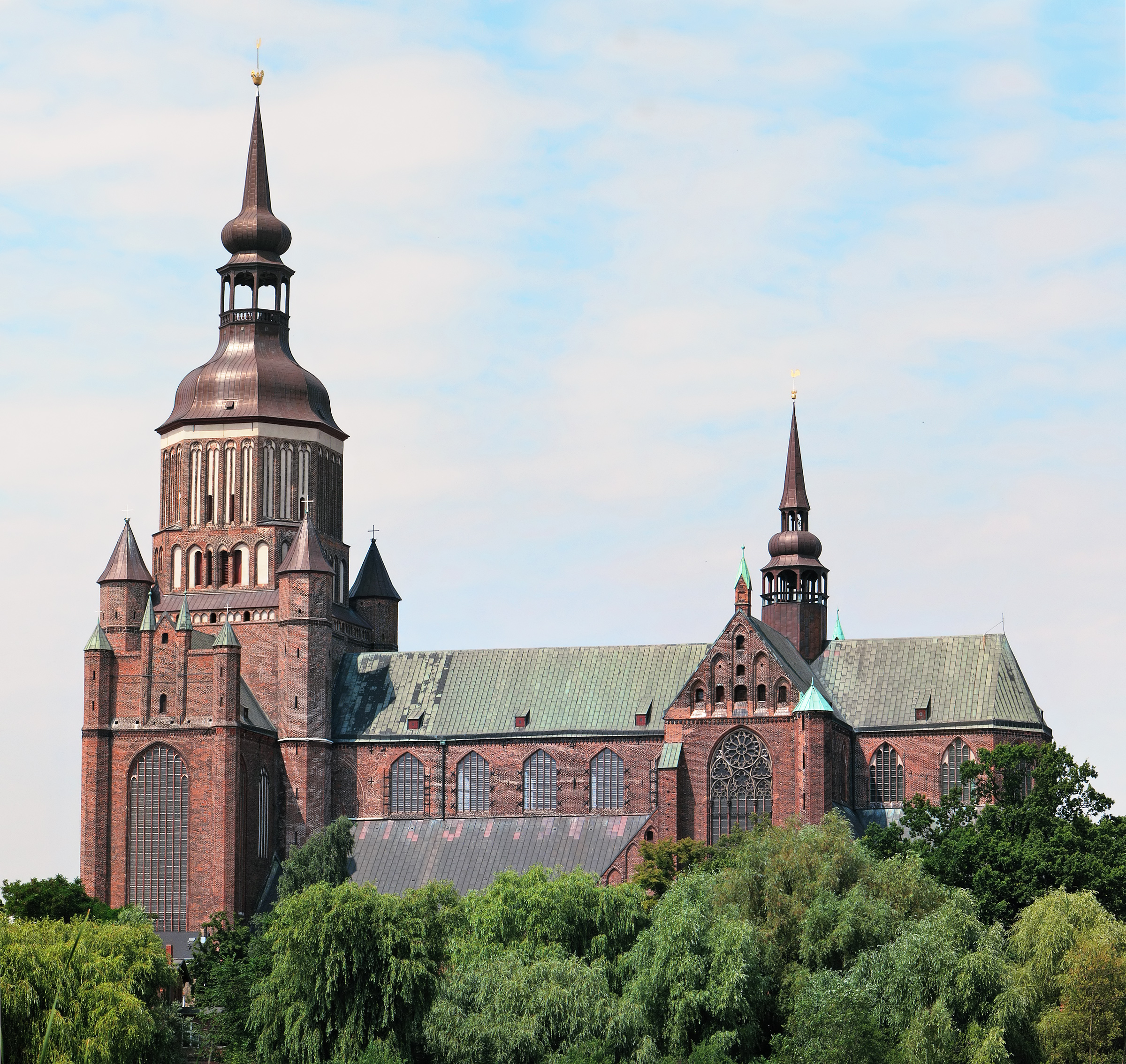 This image shows the Marienchurch of Stralsund.